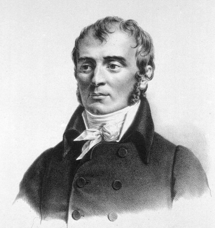 Marie François Xavier Bichat (1771-1802), French physician and anatomist